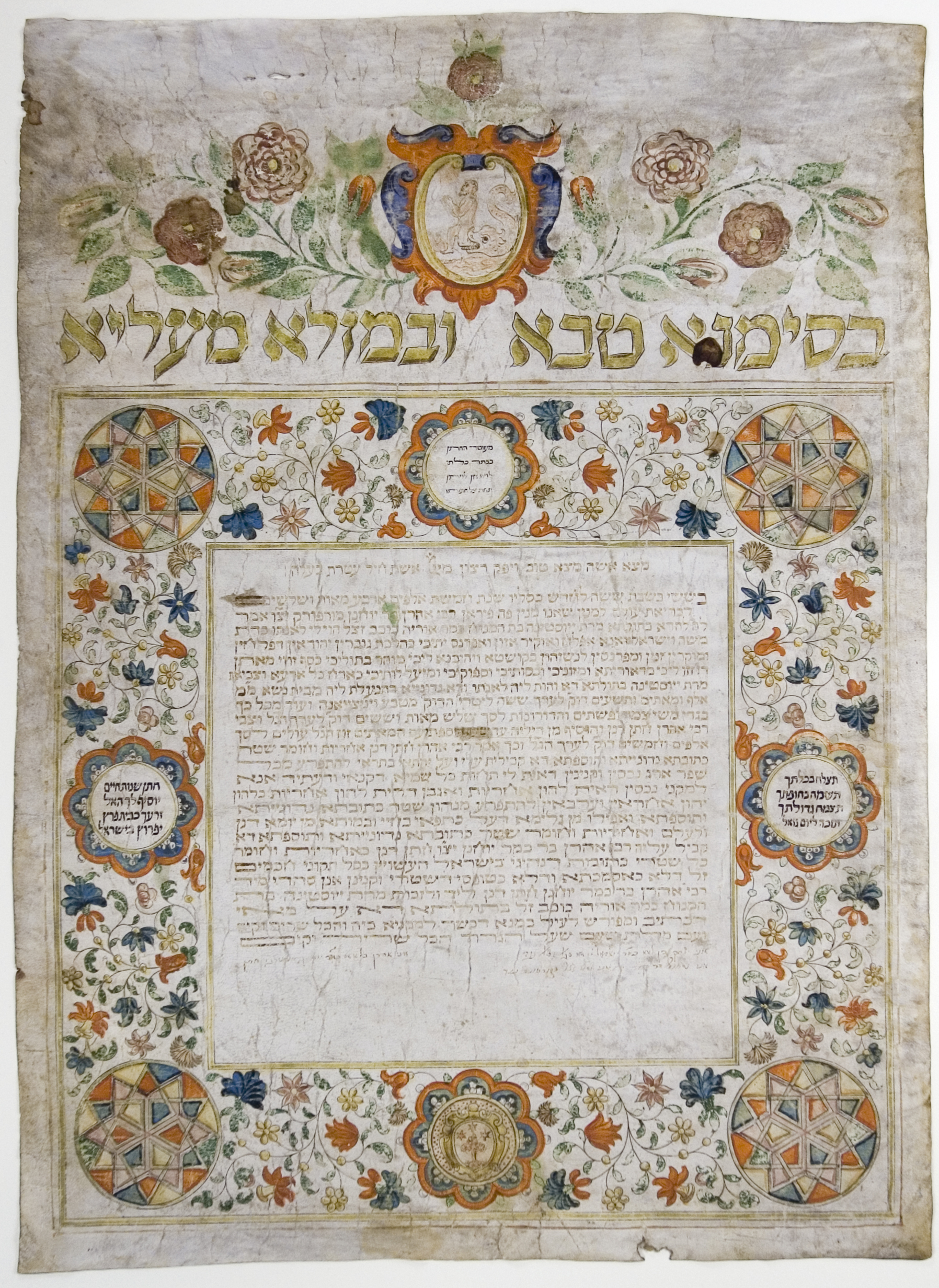 Ketubah from The Ketubot Collection of the National Library of Israel. Created on November 1669 in Piran in present Slovenia. See item ID #11 in Magnes Collections Online for further description and high-resolution version.